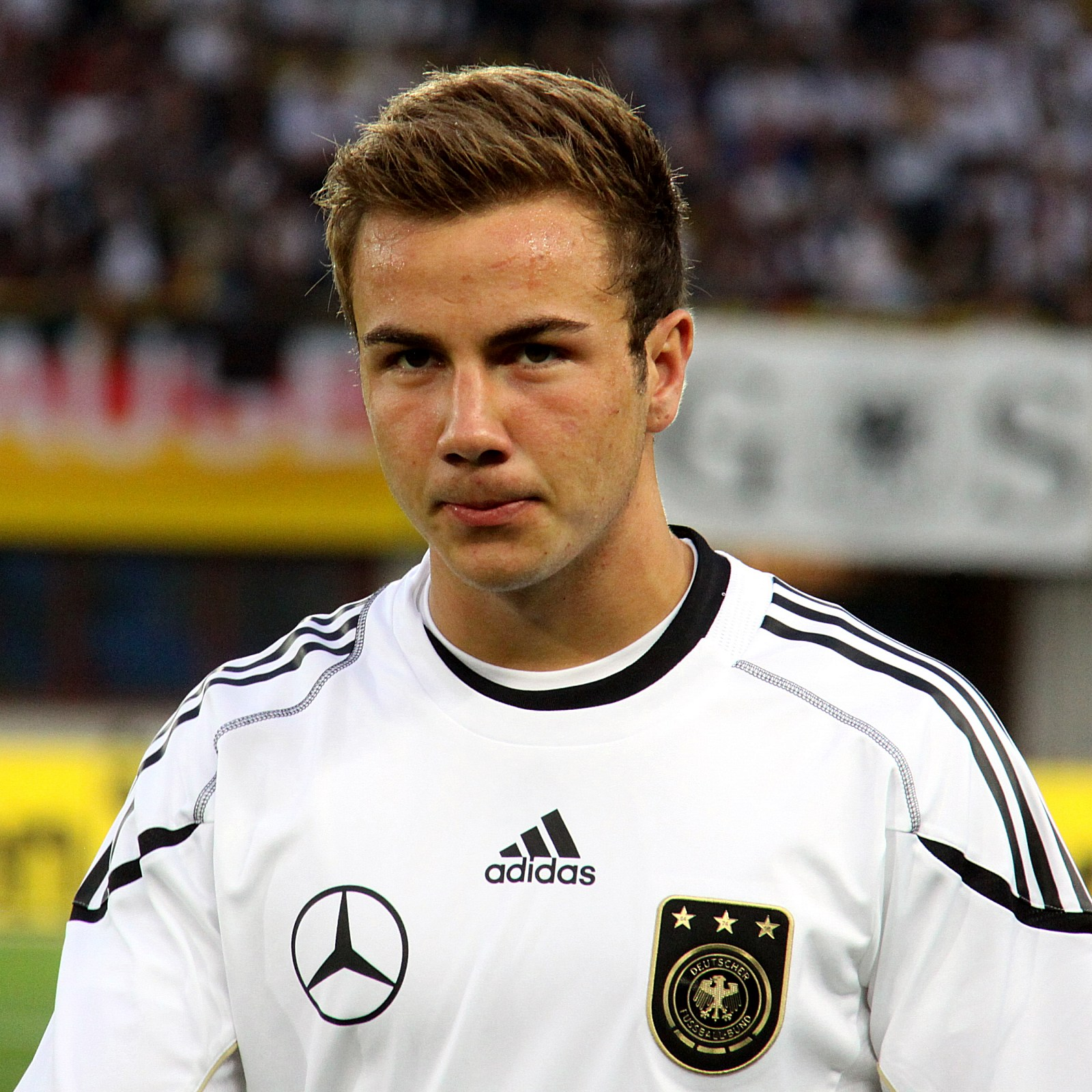 Mario Götze (Borussia Dortmund), german national football team